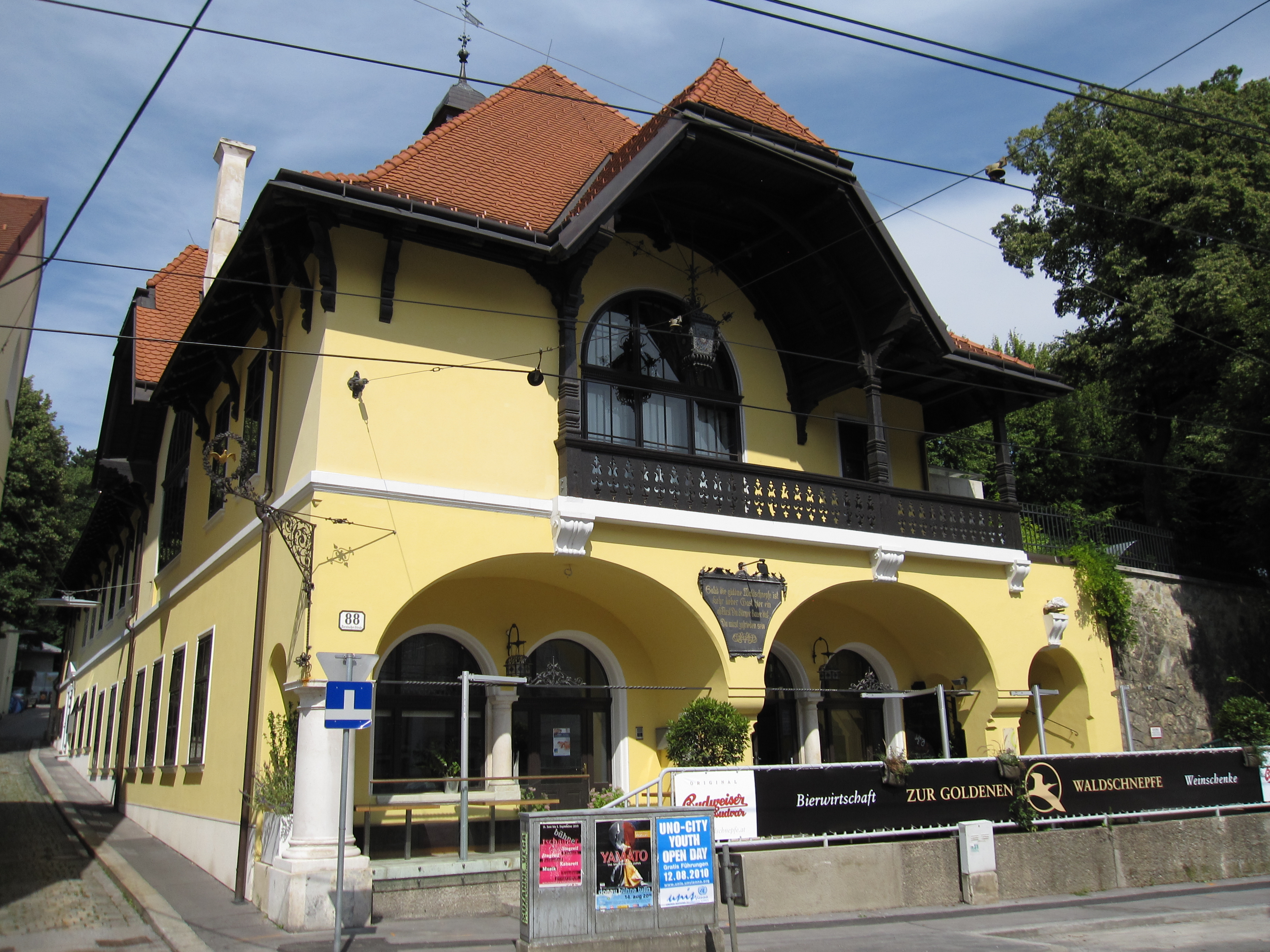 Zur güldenen Waldschnepfe in Hernals, Vienna.